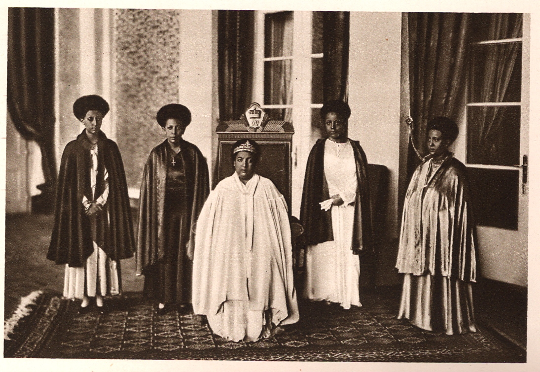 Empress Waizero Manen with two daughter (left side of the image), a relative and the crown prince's spouse